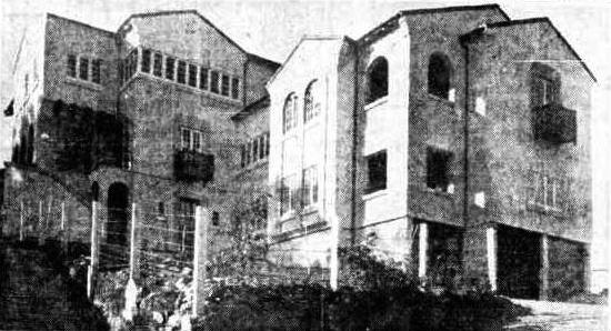 Art deco, Spanish Mission architecture, Flats, Apartments, Brisbane, Queensland